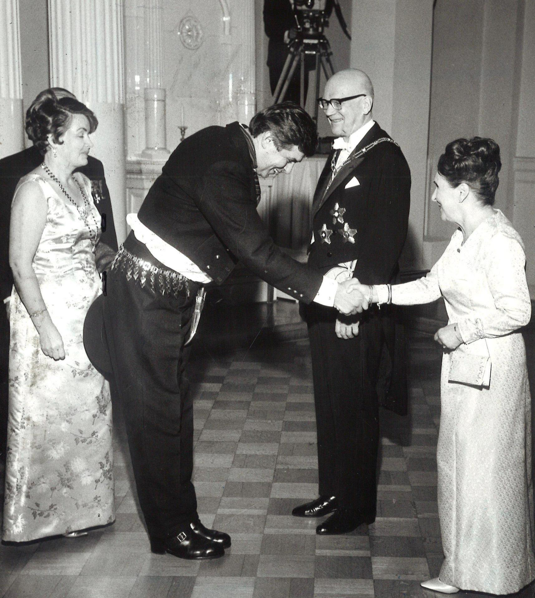 Photograph of the Finnish actor Tarmo Manni (1921–1999) at the Independece Day reception, Presidential Palace, Helsinki.